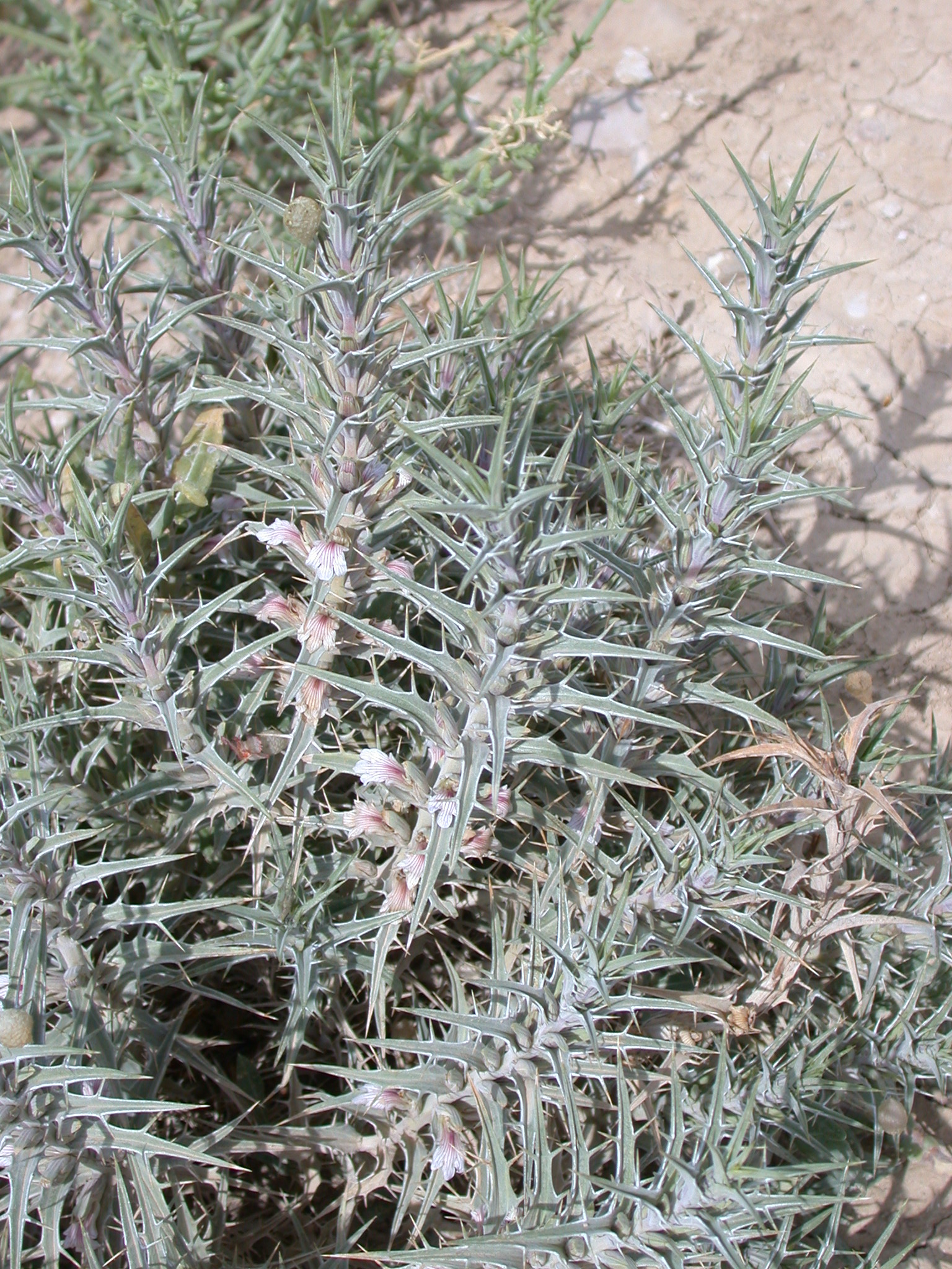 Blepharis attenuata Napper (ריסן דק), Judean Desert, Israel, March 15, 2007.